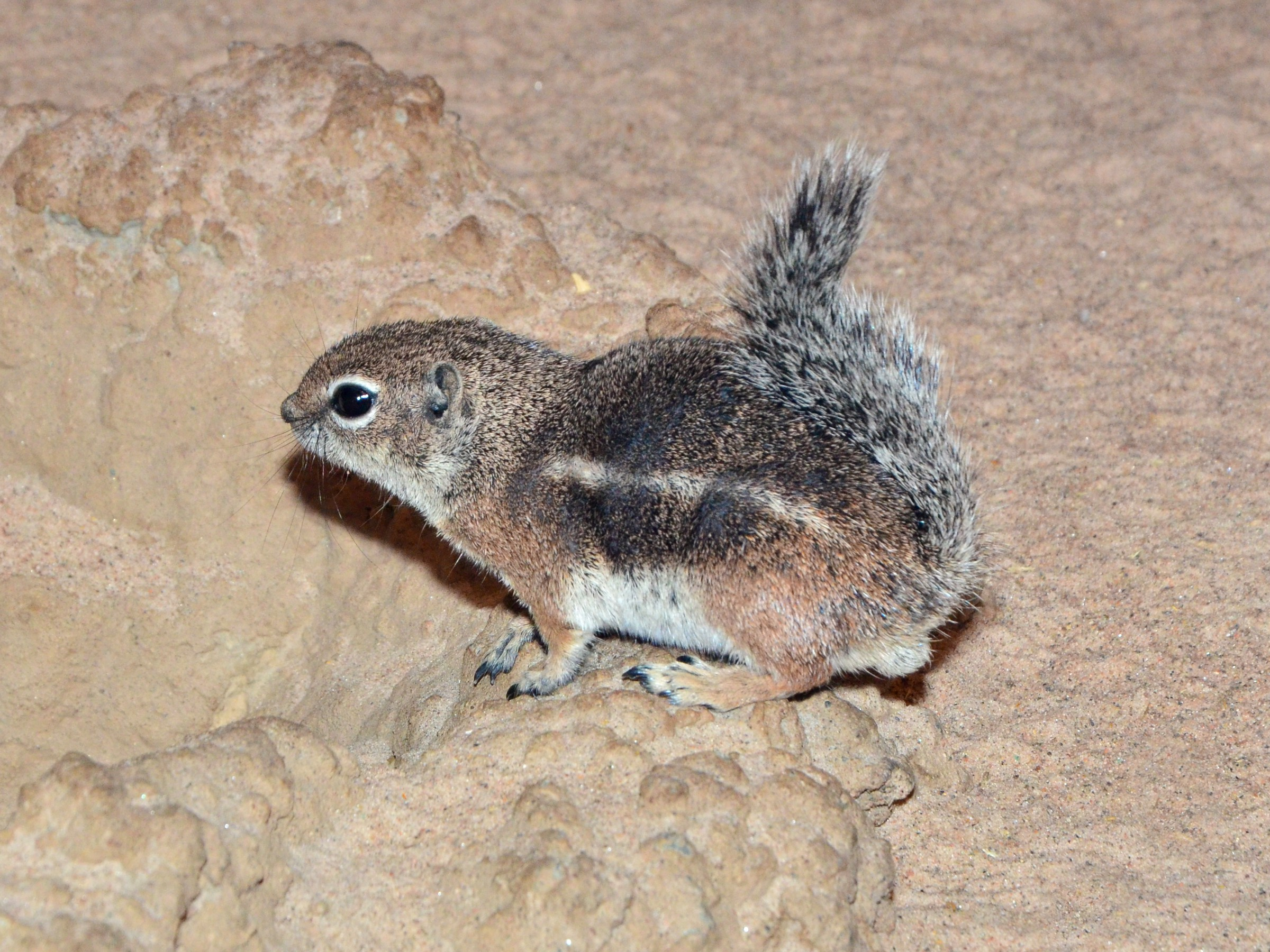 Antelope ground squirrels